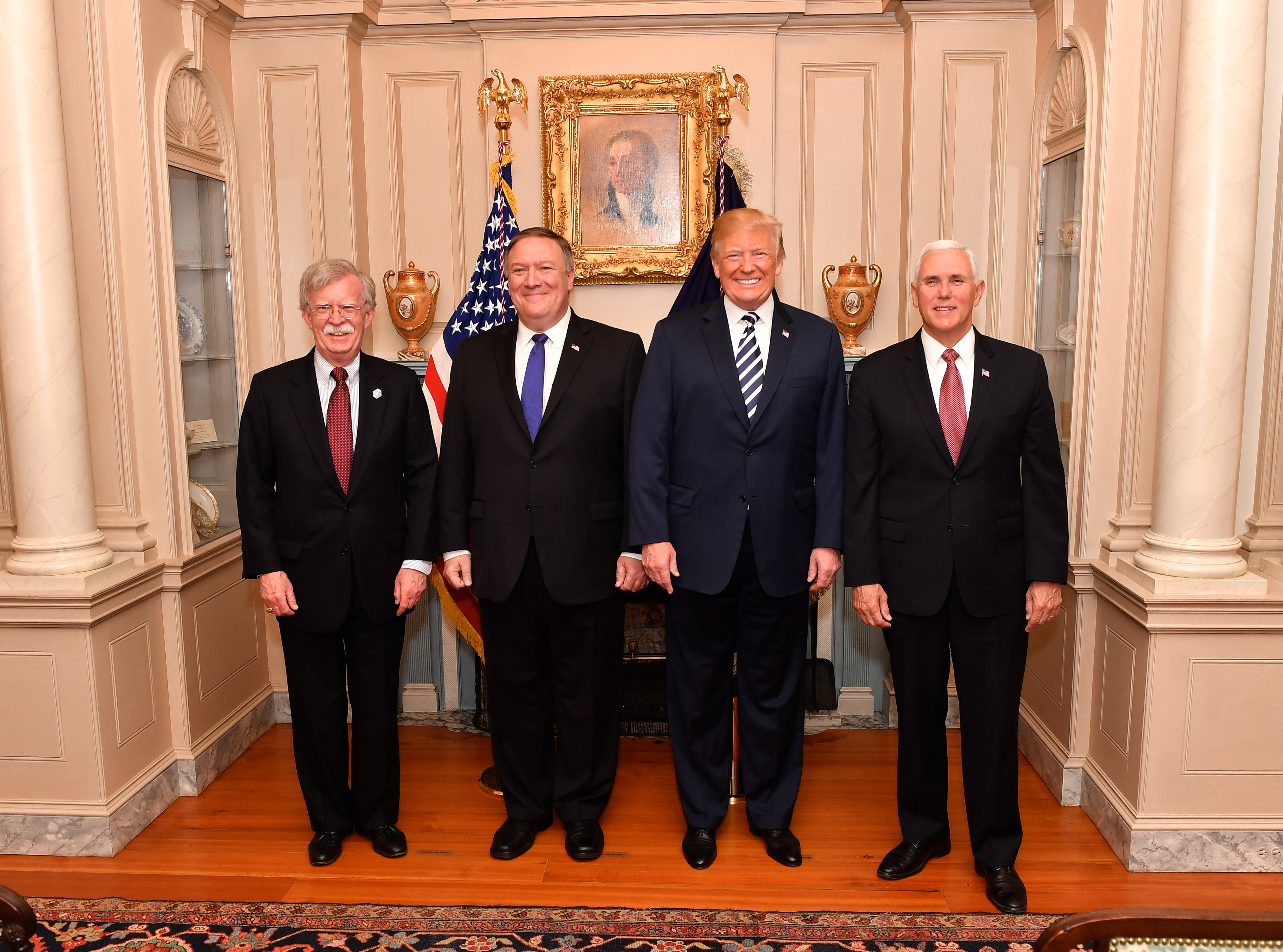 U.S. Secretary of State Mike Pompeo poses for a photo with (L to R) National Security Advisor of the United States John Bolton, President Donald J. Trump and Vice President Mike Pence before his swearing-in ceremony at the U.S. Department of State in Washington, D.C., on May 2, 2018. [State Department photo/ Public Domain]